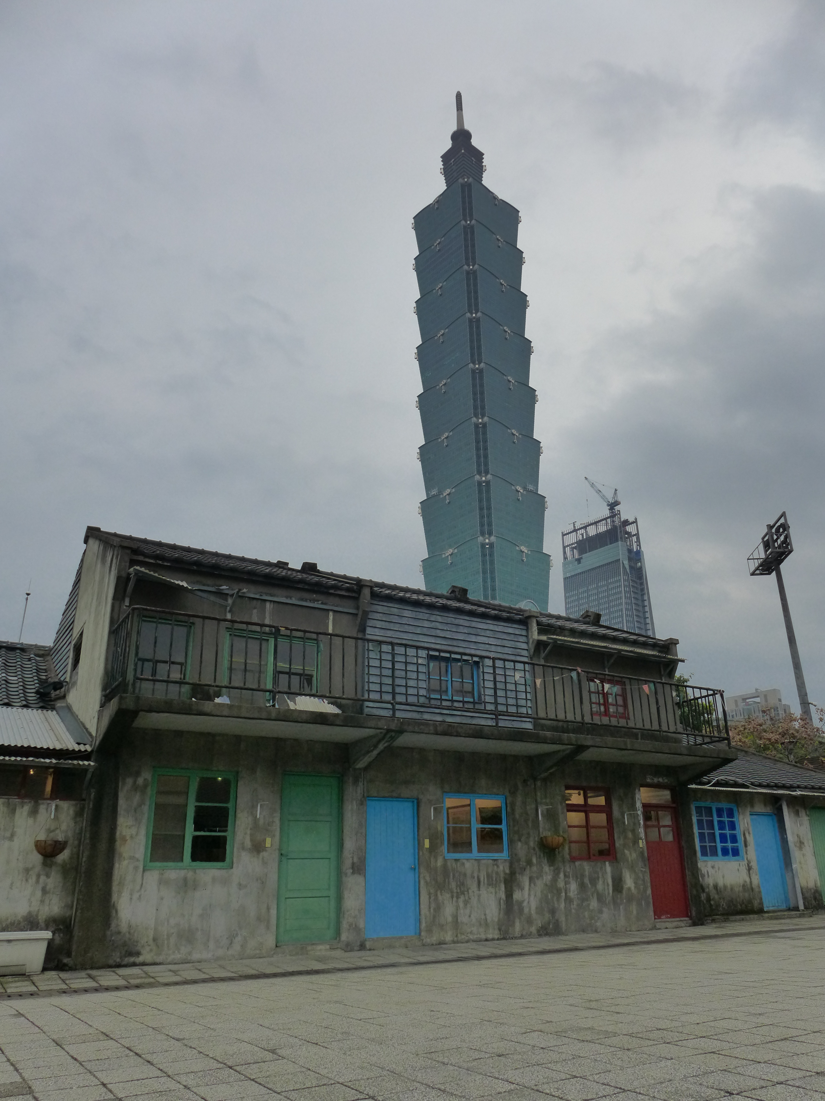 Buildings at Four Four South Village (四四南村) at 9 March 2017 in Taipei, showing Taipei 101 (臺北101) and a new skyscraper being built in the background.